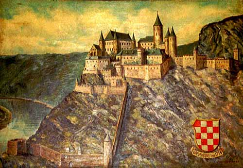 Castle Grevenburg, Traben-Trarbach, Traben-Trarbach, Bernkastel-Wittlich, Rhineland-Palatinate